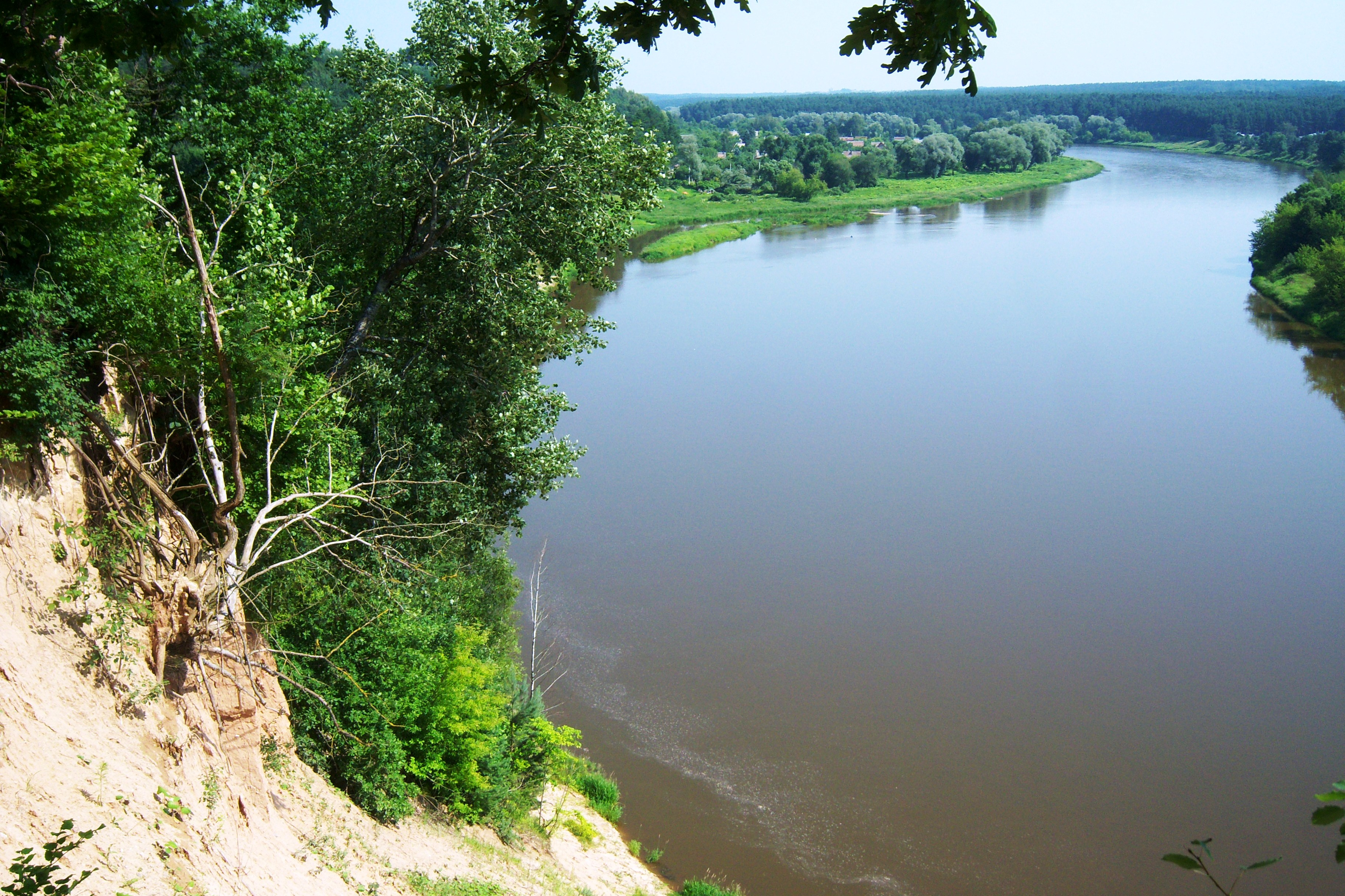 Exposure of Neris River bank in Drąseikiai, Kaunas district, Lithuania